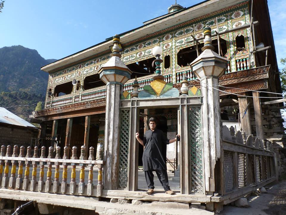 This mosque is completely made from wood